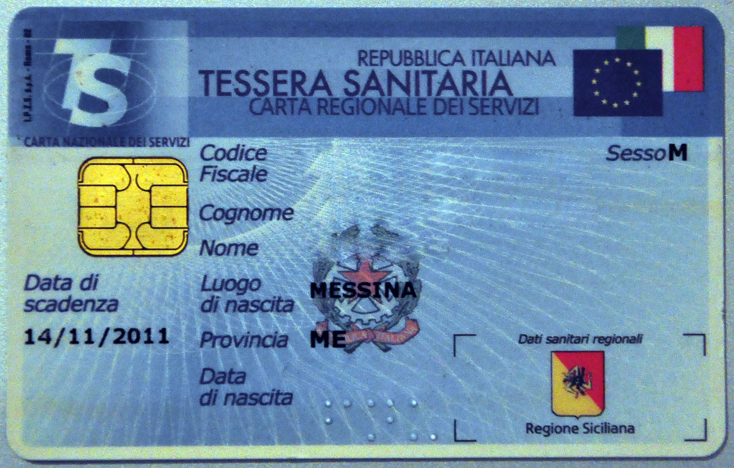 Carta Regionale dei Servizi Sicily region acts as Carta nazionale dei servizi and in the meantime for Sicily Tessera Sanitaria